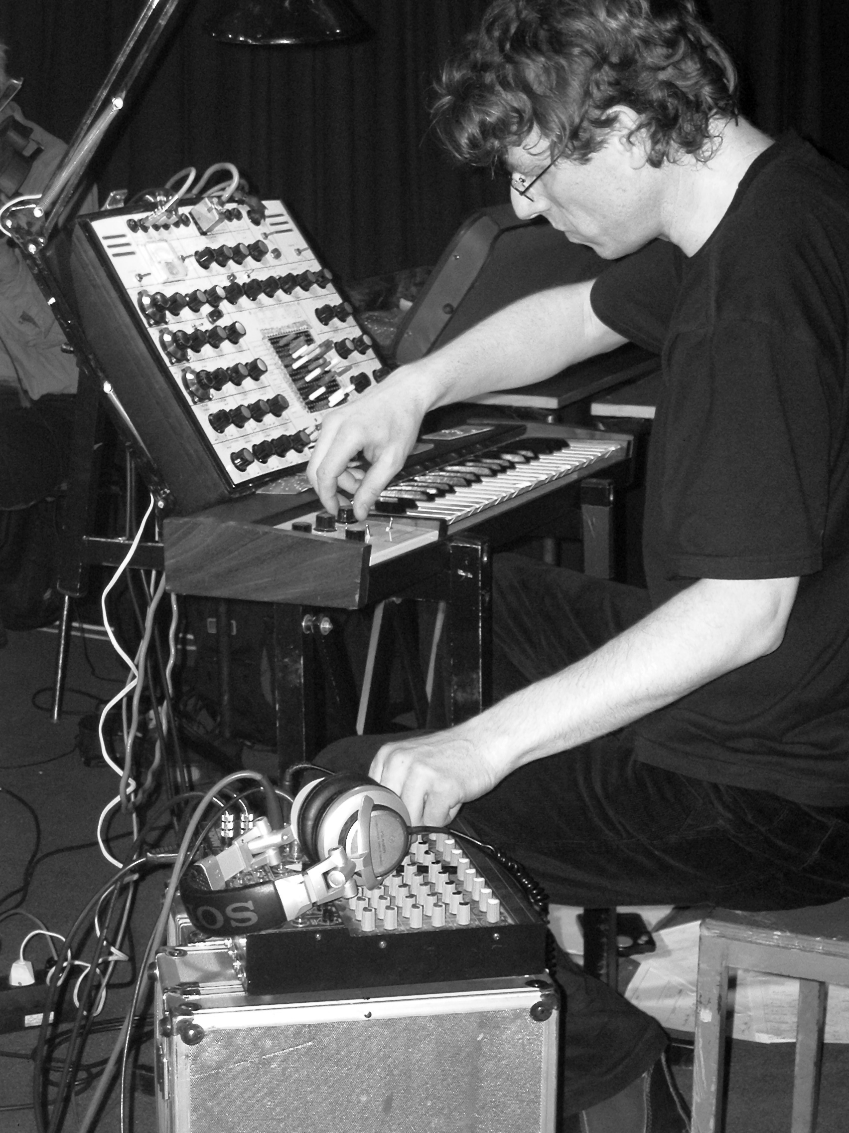 Konzert mit Futch im Club W71 in Weikersheim EMS Synthi A keyboard controller (may be one of EMS DKS, DK1, or DK2)